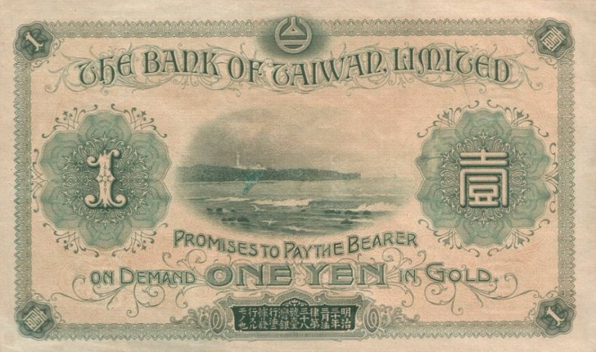 Taiwan (Japanese Colony) 1915 bank note - 1 Taiwan yen (reverse). (These notes must be distinguished from the one's the Kuomintang regime's Bank of Taiwan issued under the same English name from 1946.)